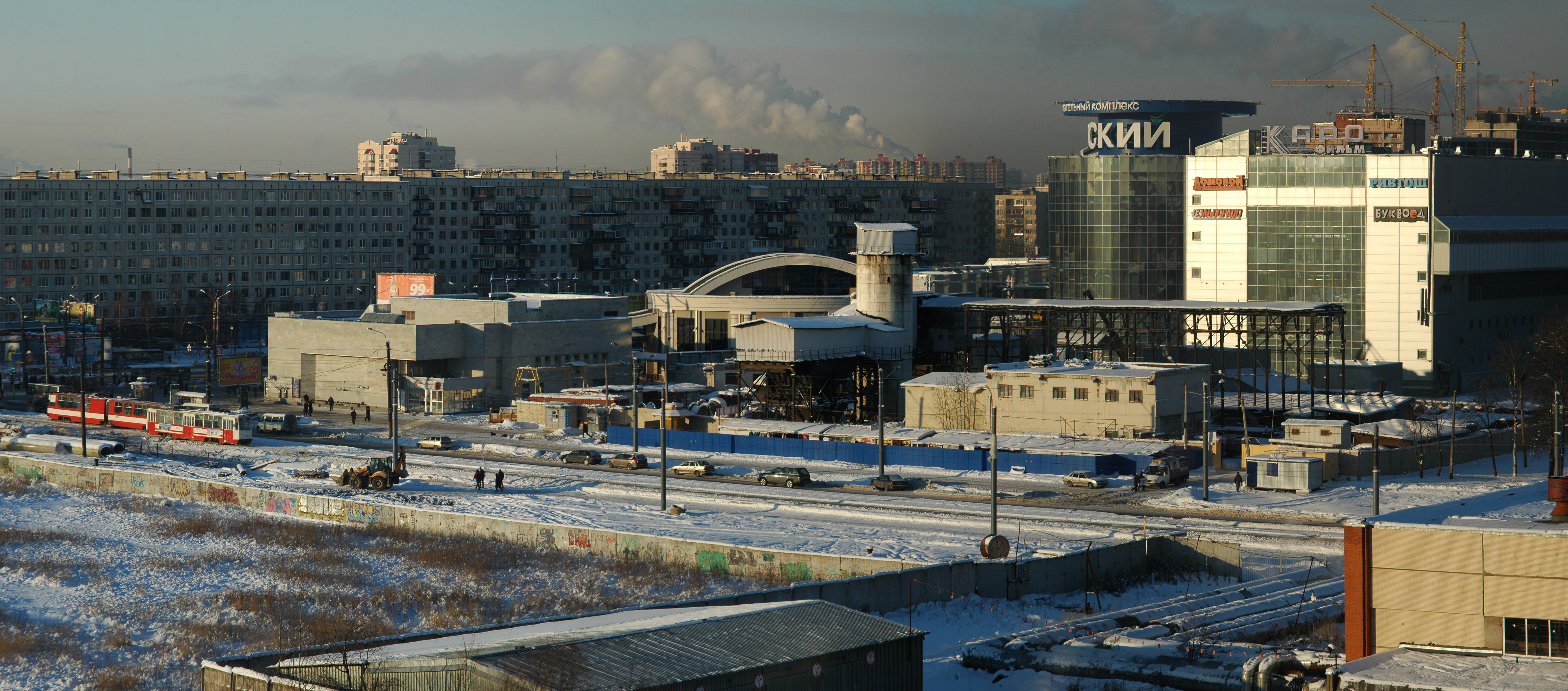 Nevsky District, St Petersburg, Russia